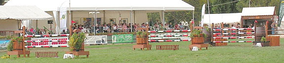 == Cropped picture with focus on the obstacles.